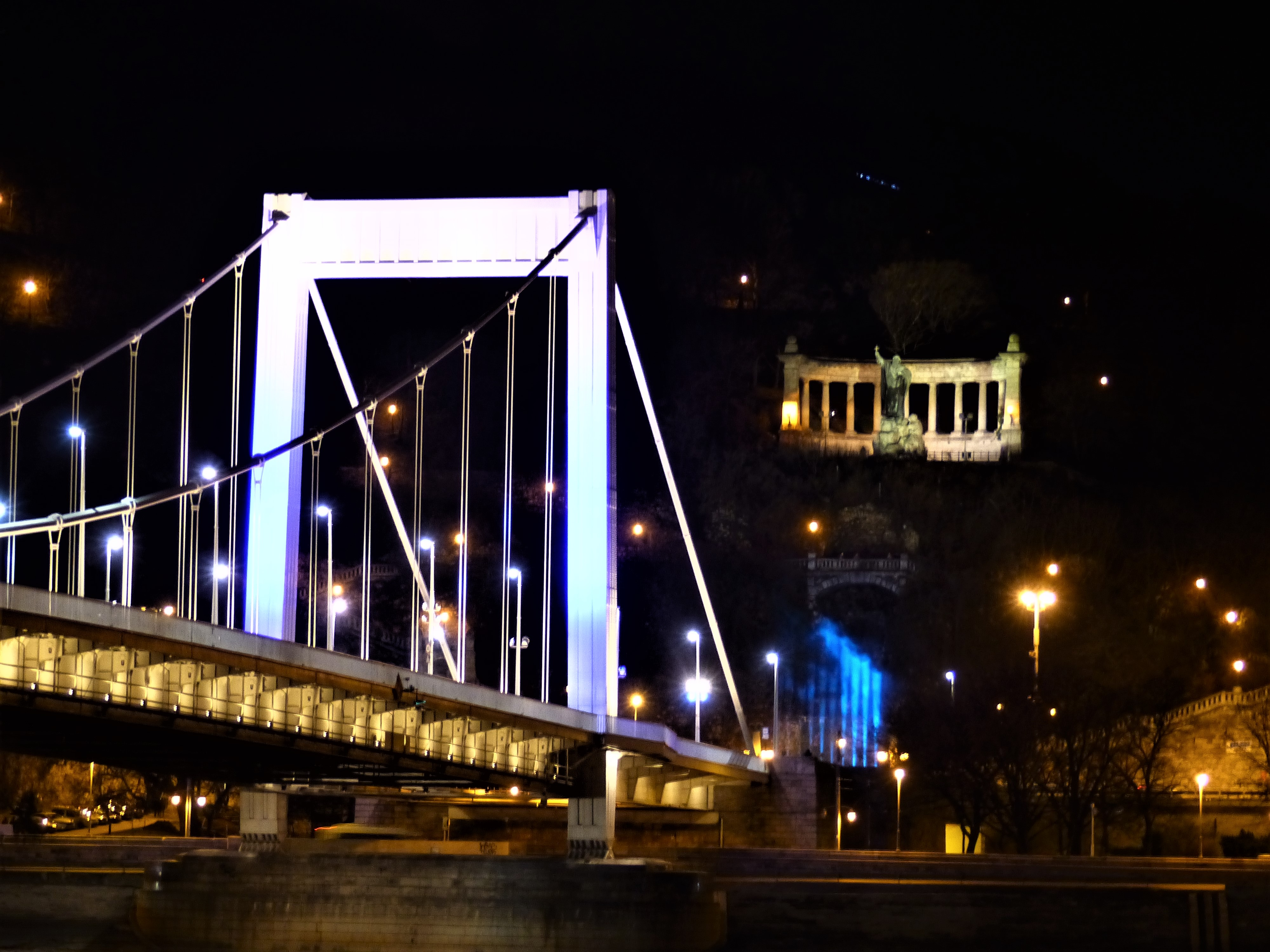 Gellérthegy (Budapest) was illuminated in honour of Finnish Independence Day on Wednesday, 6th of December 2017. On this day, in 1917 Finnish Parliament declared Finland's independence from Russia.